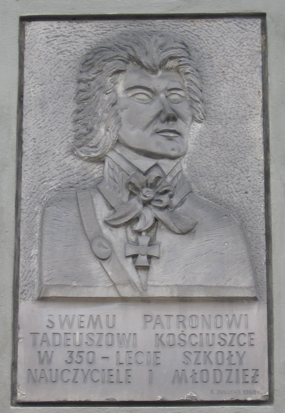 Commemorative plaque on building of 1st grammar school with name Tadeusz Kościuszko in Łomża Annotation: For our patron Tadeusz Kościuszko for 350th anniversary of founding school; Teachers and youth. F.Jarocha 1968